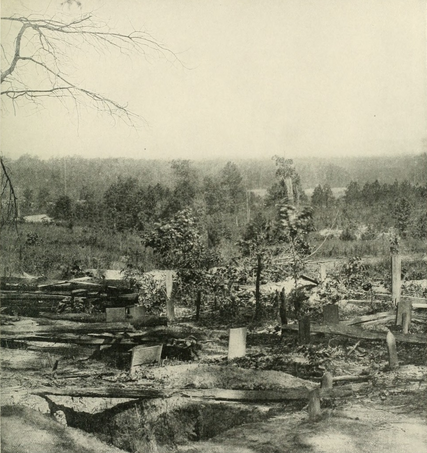 Union graves close to where the soldiers fell after the Confederates under John B. Hood attacked at Peachtree Creek just north of Alanta, 1864.